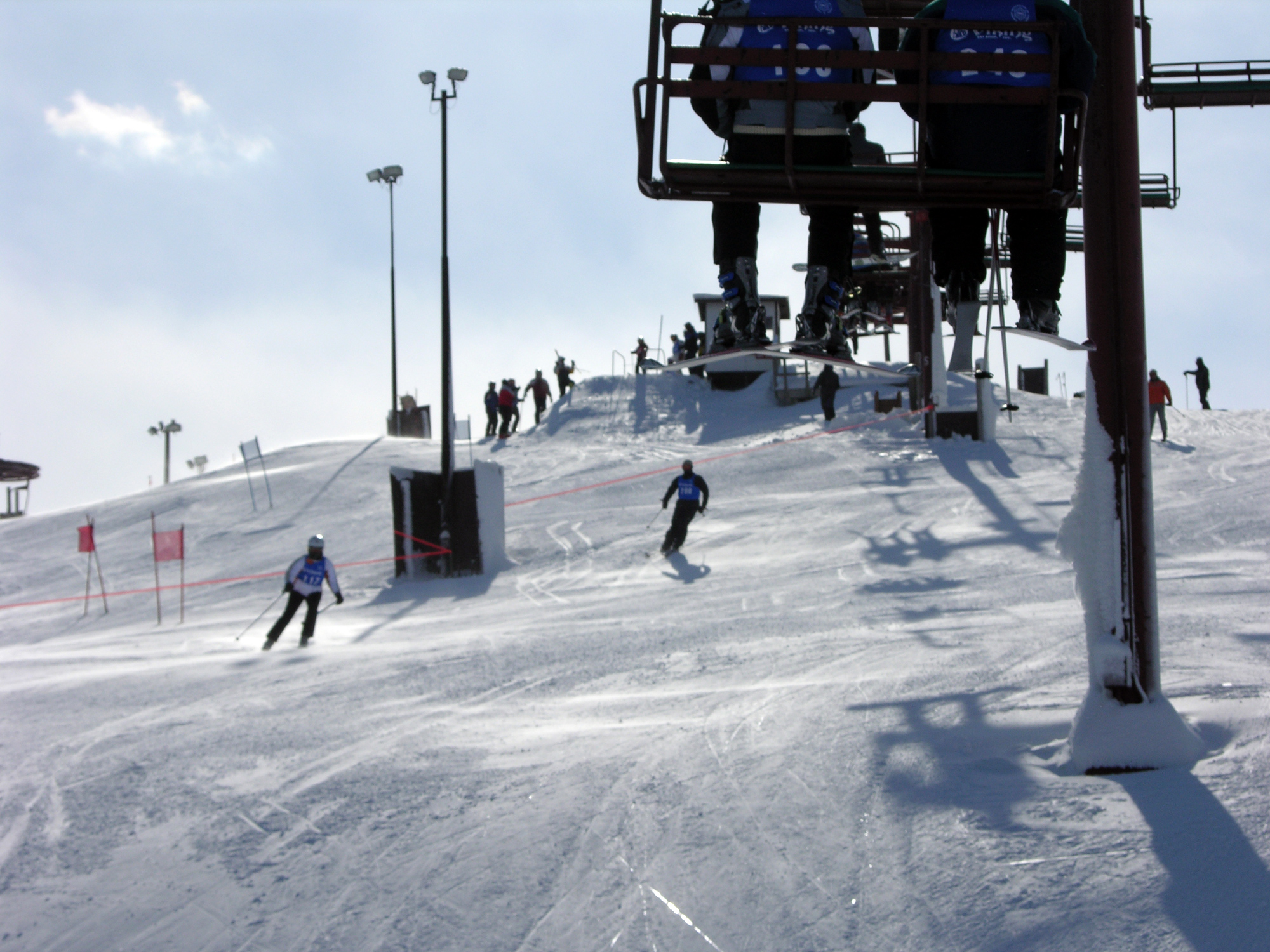 Wilmot Mountain, Wilmot, Wisconsin. Shot during a CMSC race day. Racers can be seen skiing on the hill and on the chairlift (wearing blue bibs.) Taken from the middle of "Superior" run. Photo by Richard C. Drew, Feb. 2007.